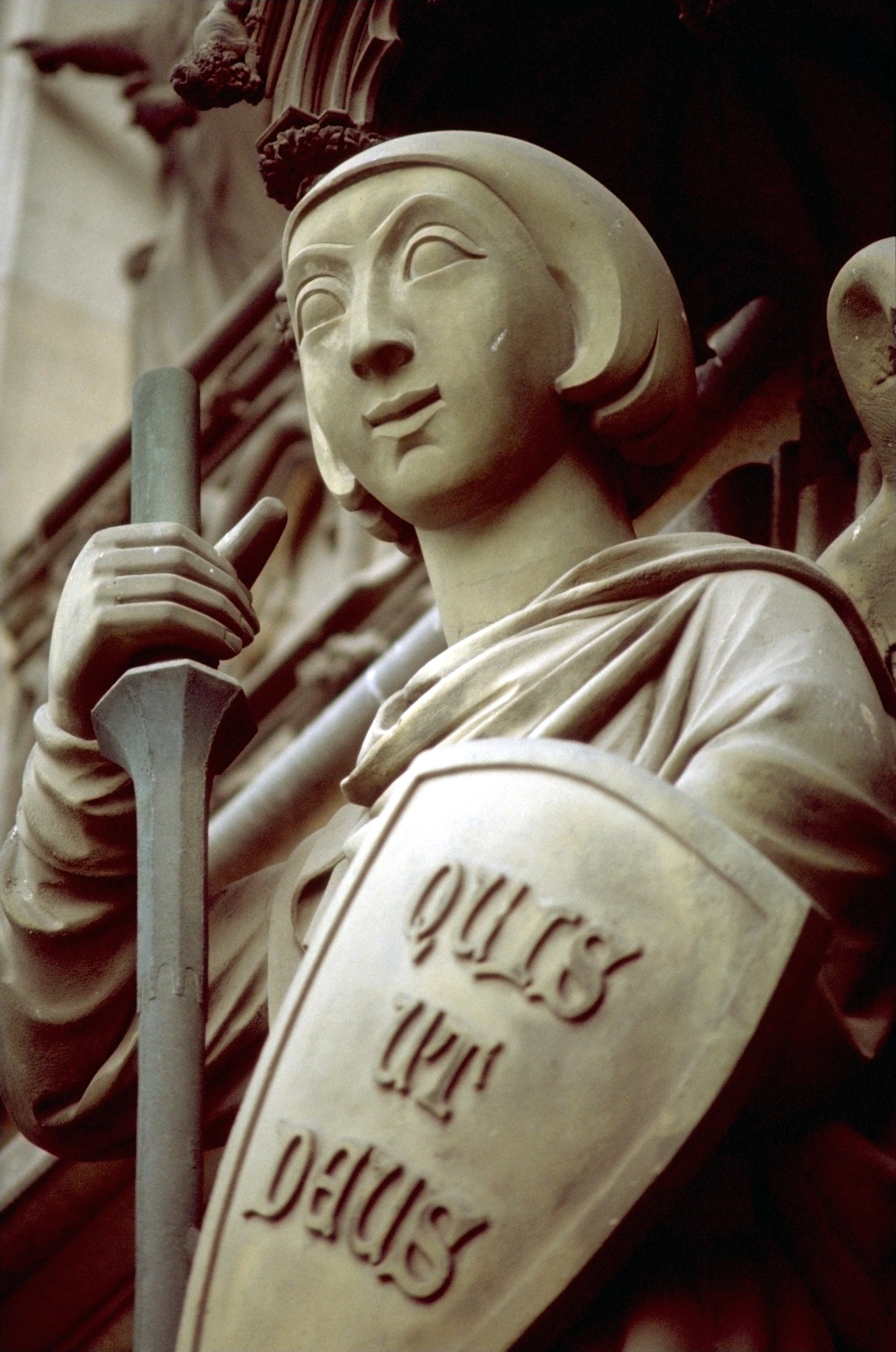 Archangel Michael at the northern portal of Cologne Cathedral. The Latin inscription QUIS UT DEUS (who is like God?) is the translation of the Hebrew name מיכאל = Michael.